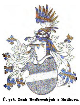 A coat of arms of the Budkovští z Budkova family